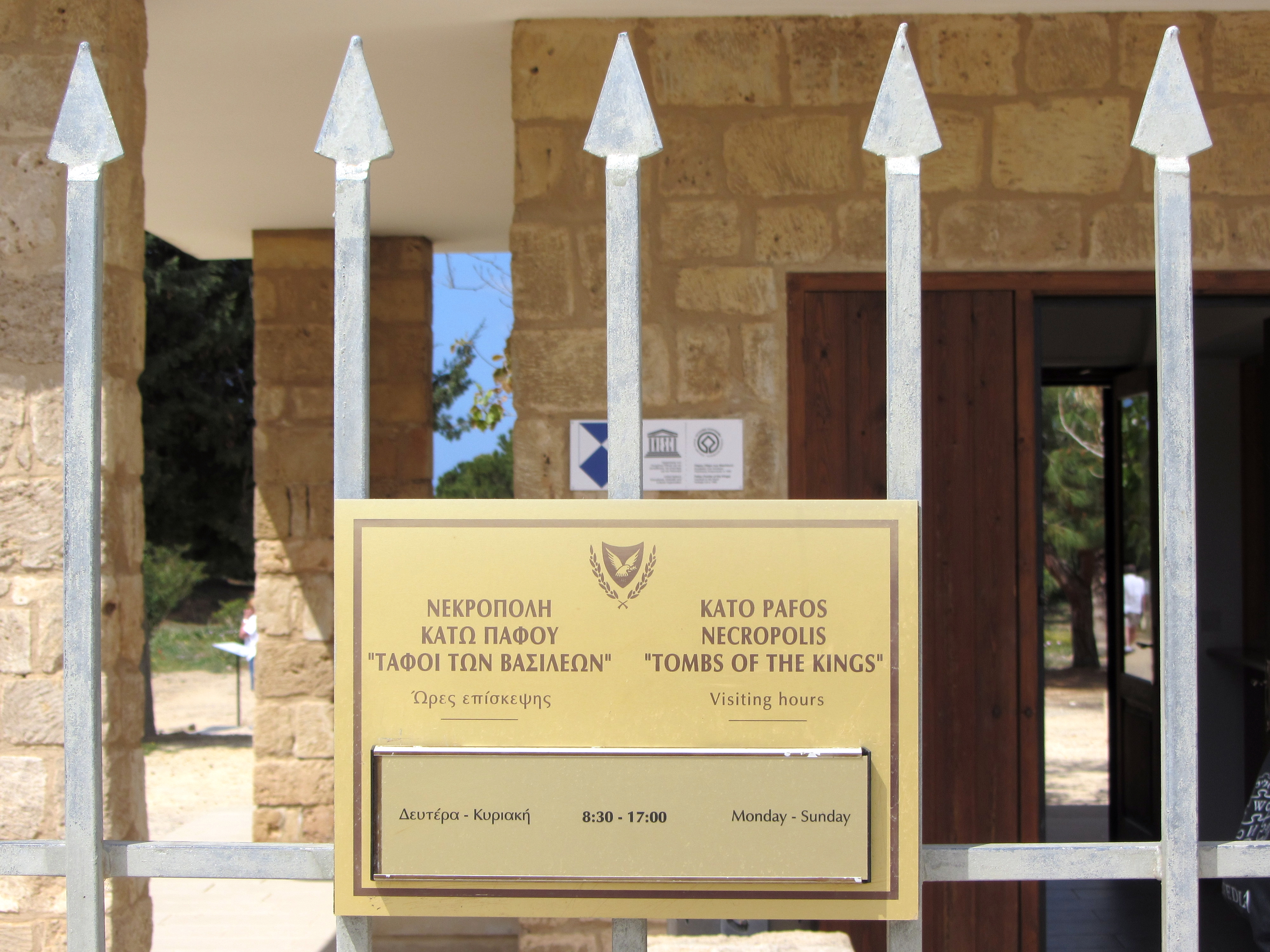 Paphos (Cyprus). Tombs of the Kings: Entrance.